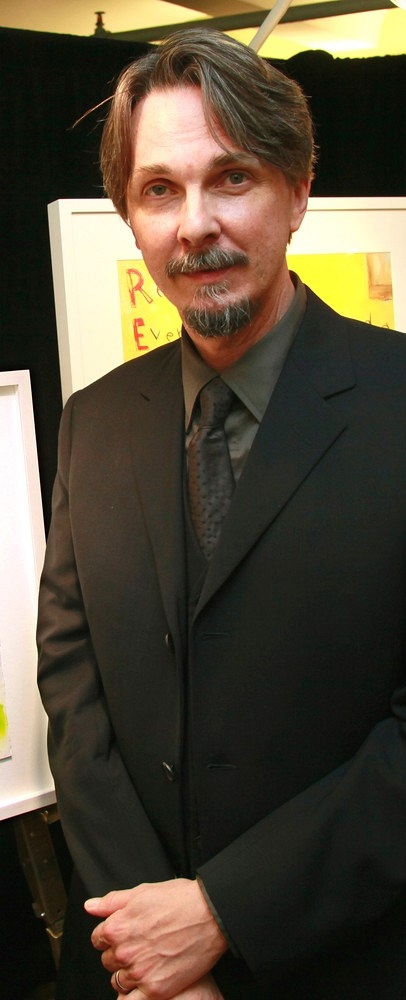 Jon J Muth in 2011